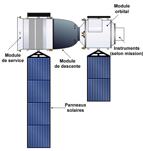 Shenzhou spacecraft diagram : first version (mission 1 to 7) with solar panels on orbiter module. Labels in french.